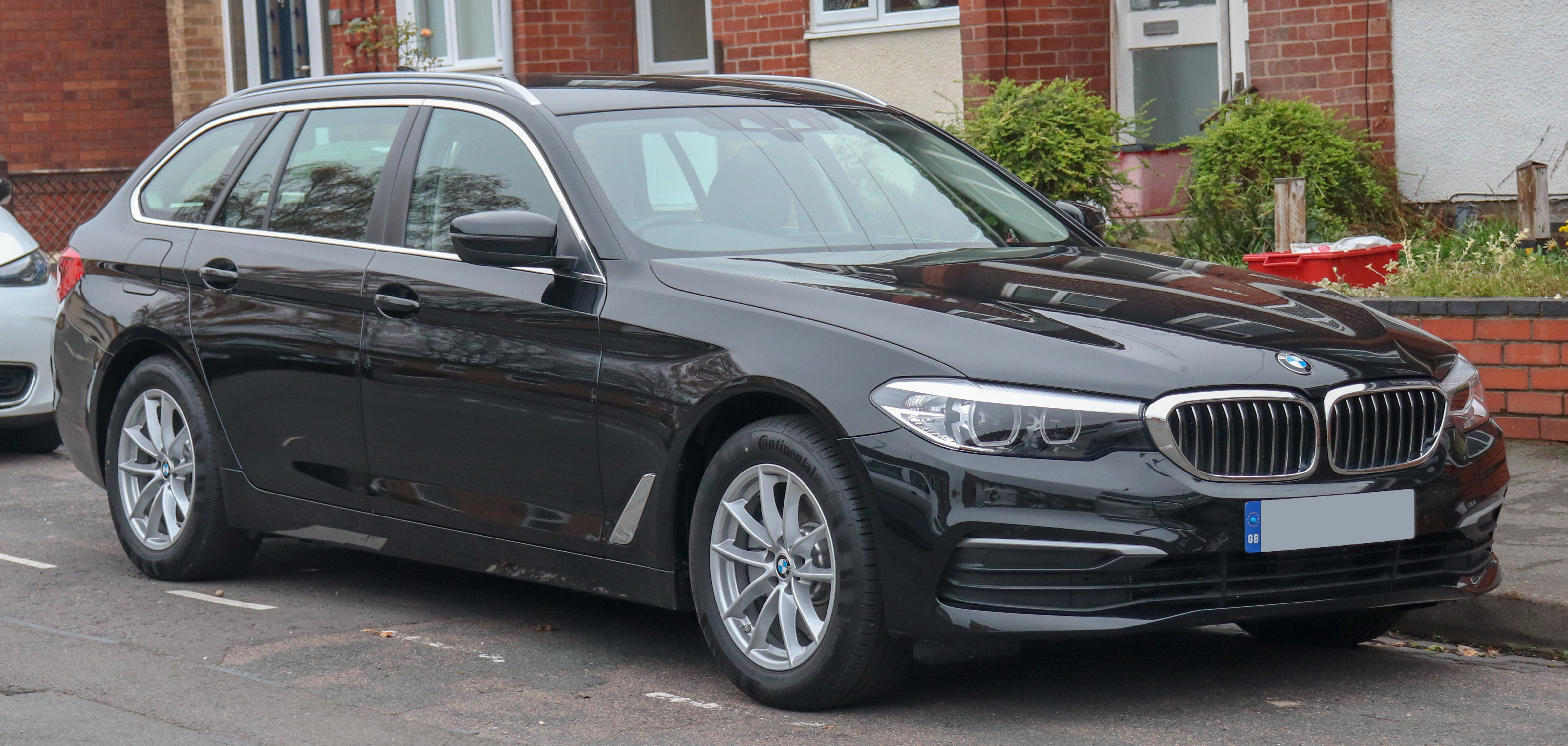 2018 BMW 520i SE Automatic Estate 2.0 Front Taken in Warwick